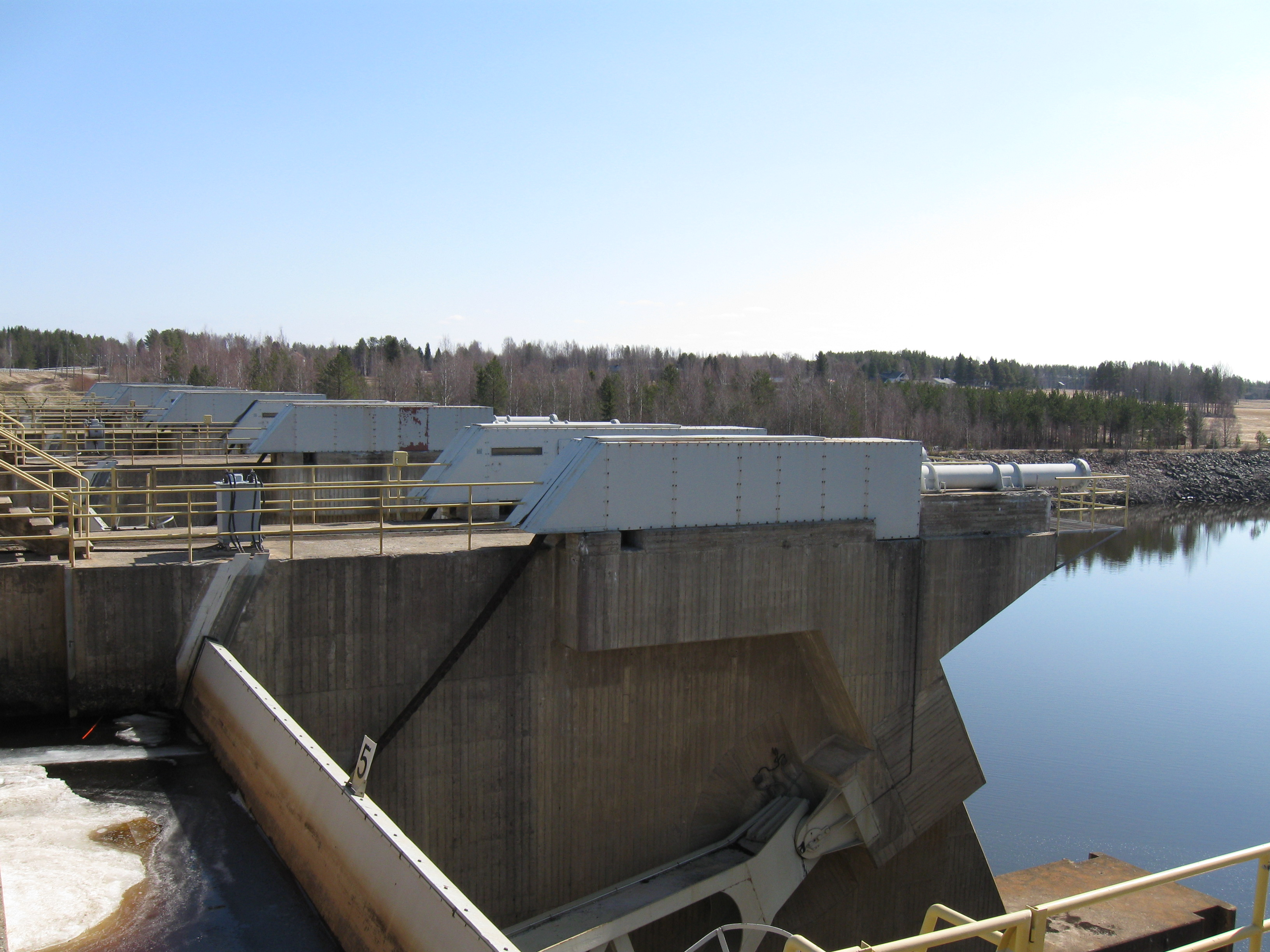 The Ossauskoski power plant at the Kemijoki river in Tervola, Finland.